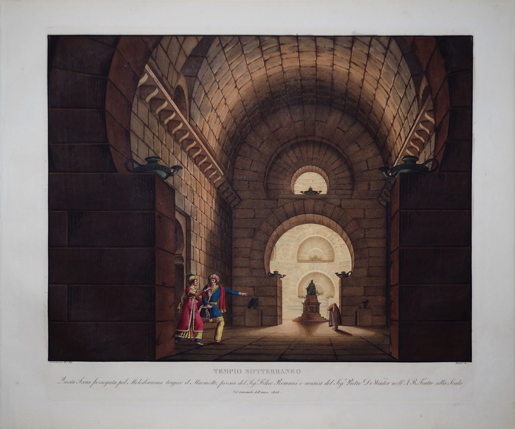 Scene (2.2 scene 7 "Tempio Sotterraneo") from the opera Maometto (libretti by Felice Romani, music by Peter von Winter, created 28 January 1817 at La Scala, Milan. This illustration depicted the 1826 production of Maometto (La Scala), with set design by Alessandro Sanquirina. Aquatint engravings with original hand coloring Title : Tempio Sotterraneo Caption : Questa Scena fu eseguita pel Melodramma tragico Il Maometto, poesia del Sig.r Felice Romani e musica del Sig.r Pietro De Winter nell'I.R. Teatro alla Scala // Nel Carnevale dell'Anno 1826